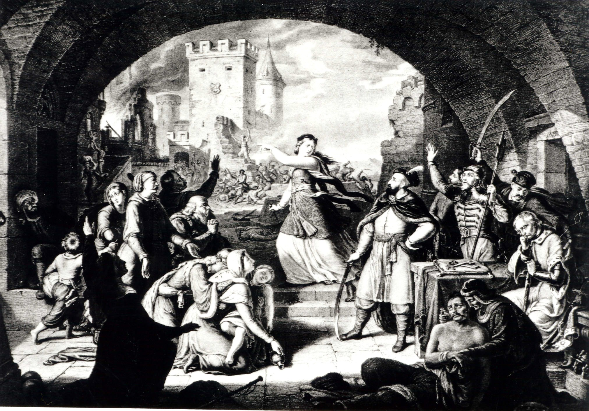 Defense of Trembowla 1675